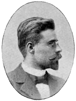 Image scanned from the book "Svenskt Porträttgalleri XX - Arkitekter, Bildhuggare, Målare m.fl. " ("Swedish Portrait Gallery XX - Architects, Sculptors, Painters, ") published 1901